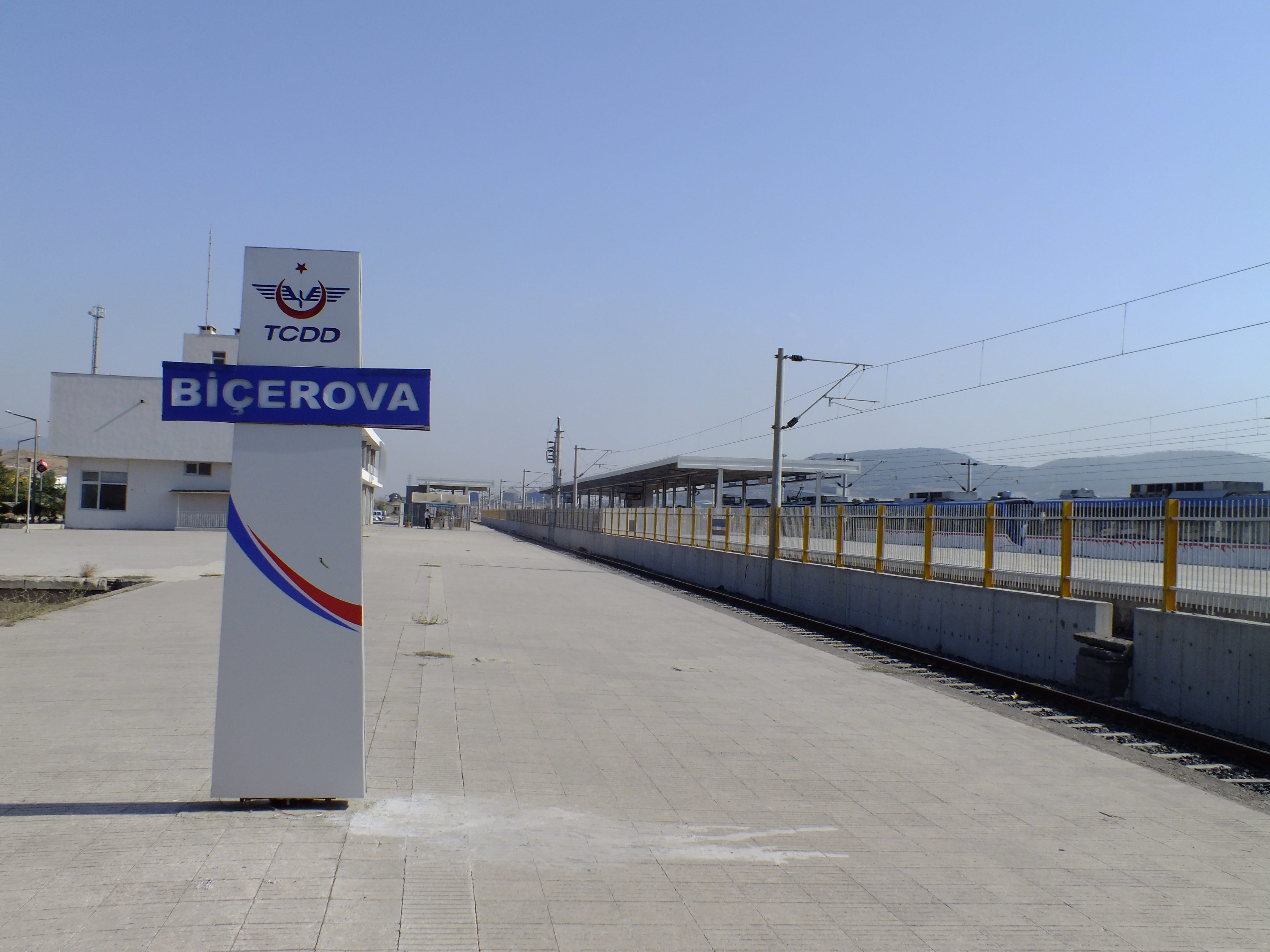 Bicerova IZBAN station.